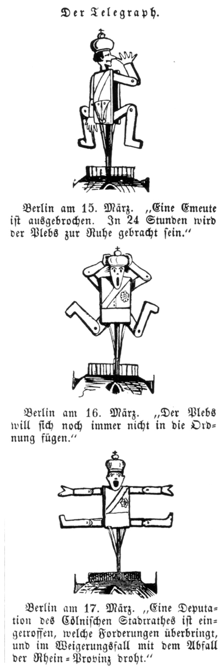 Cartoon about the prussian optical telegraph, Wood engraving